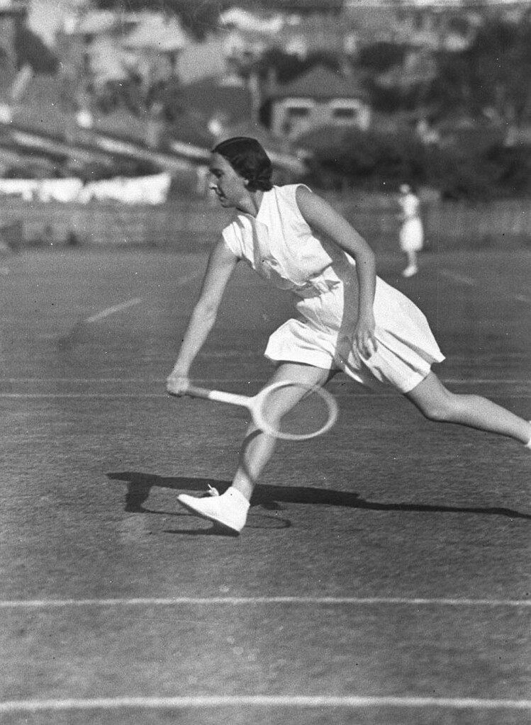 Dorothy Round